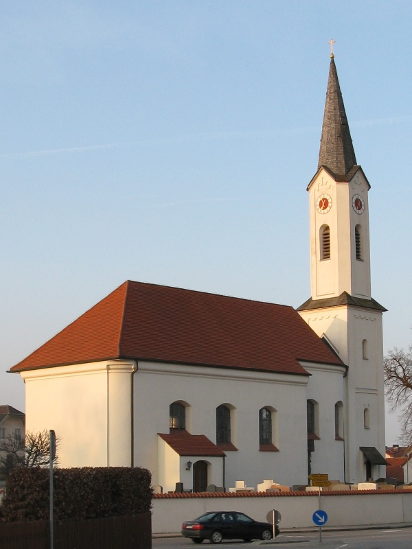 Church St. Nikolaus und Sylvester, Mammendorf, Bavaria, Germany